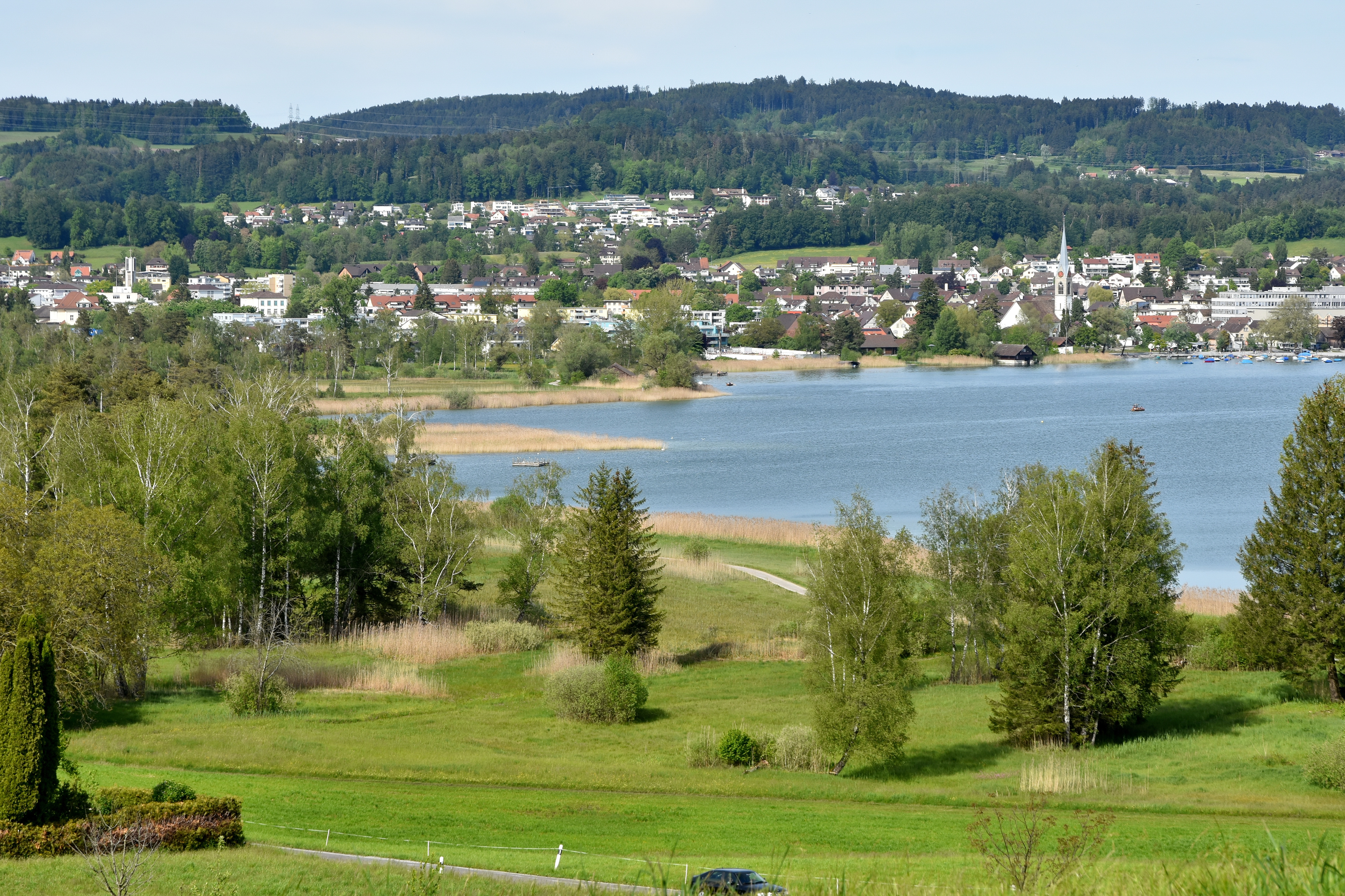 Pfäffikersee as seen from the walking path at Rutschberg towards Jucker Farm in Seegräben (Switzerland)